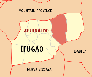 Map of Ifugao showing the location of Aguinaldo